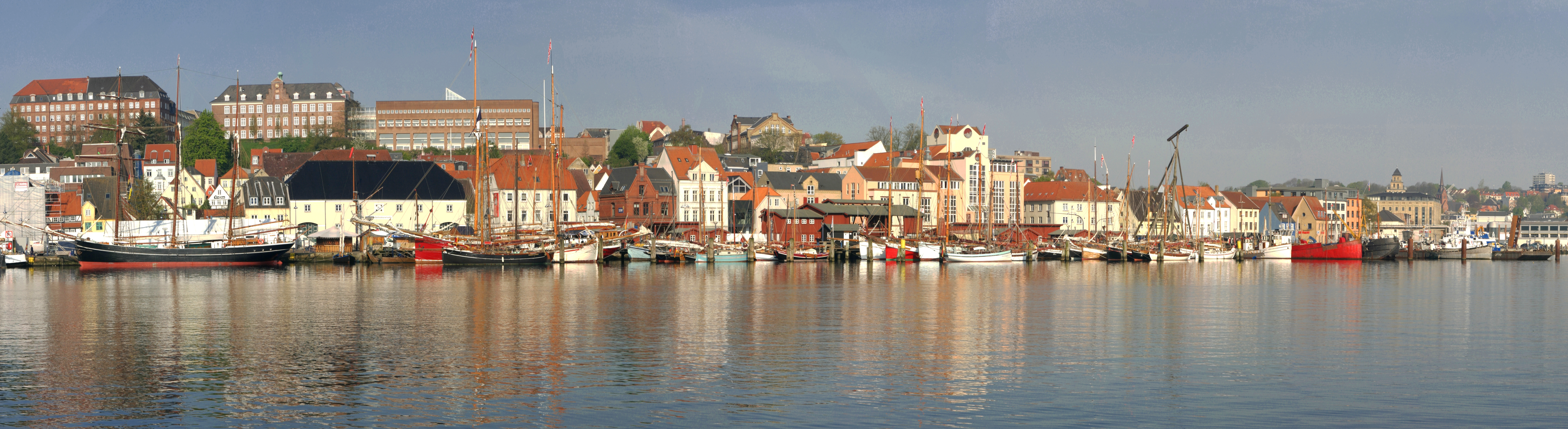 Panorama of the harbor at the Rumregatta in 2008.